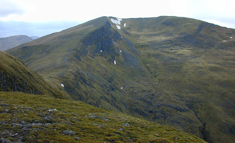 Coire a' Chuill Droma Mhoir Looking across the upper part of the coire from high up on the Druim Thollaidh, with the summit of Sgurr an Doire Leathain beyond.